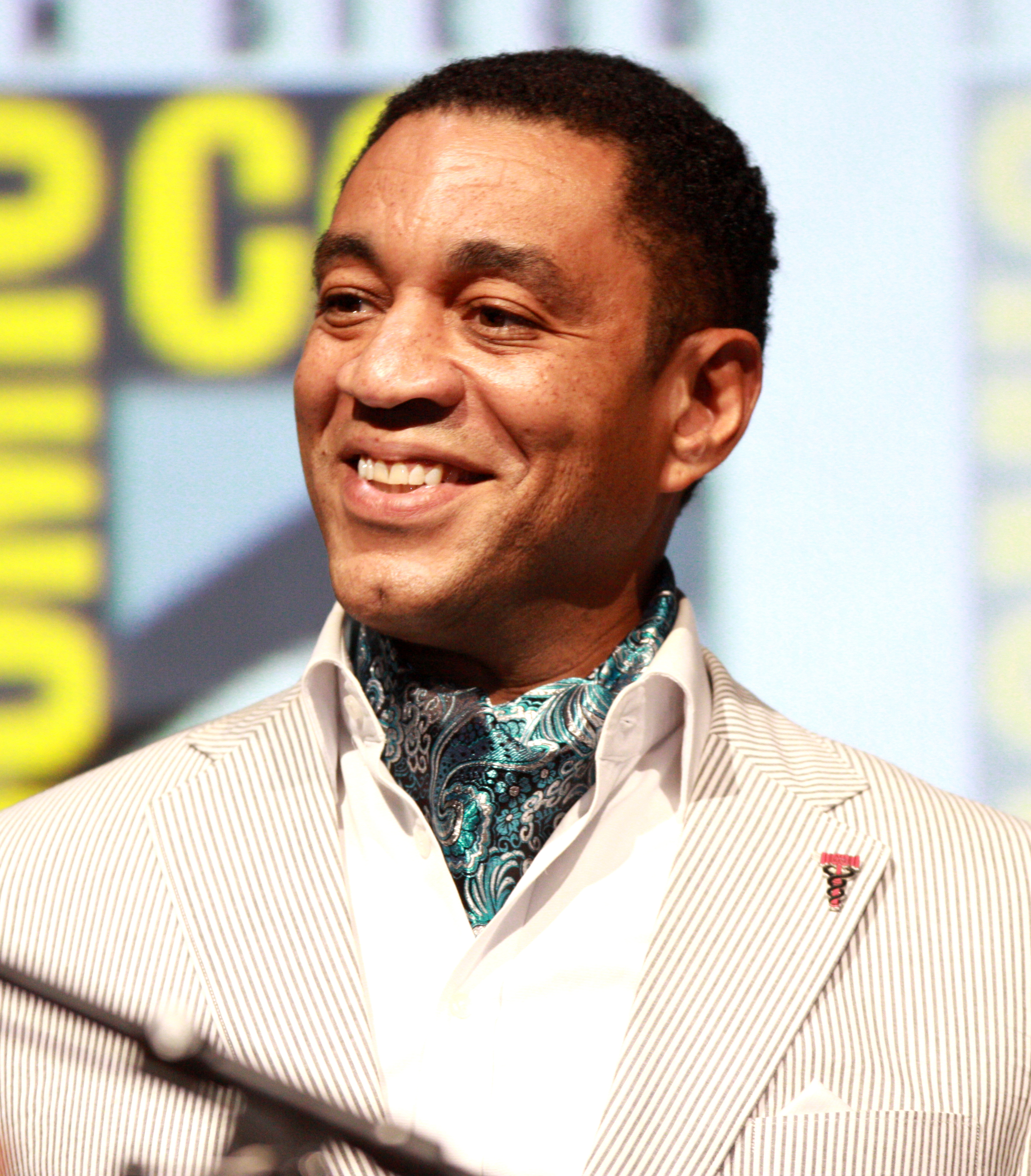 Harry Lennix at the 2013 San Diego Comic Con International in San Diego, California.